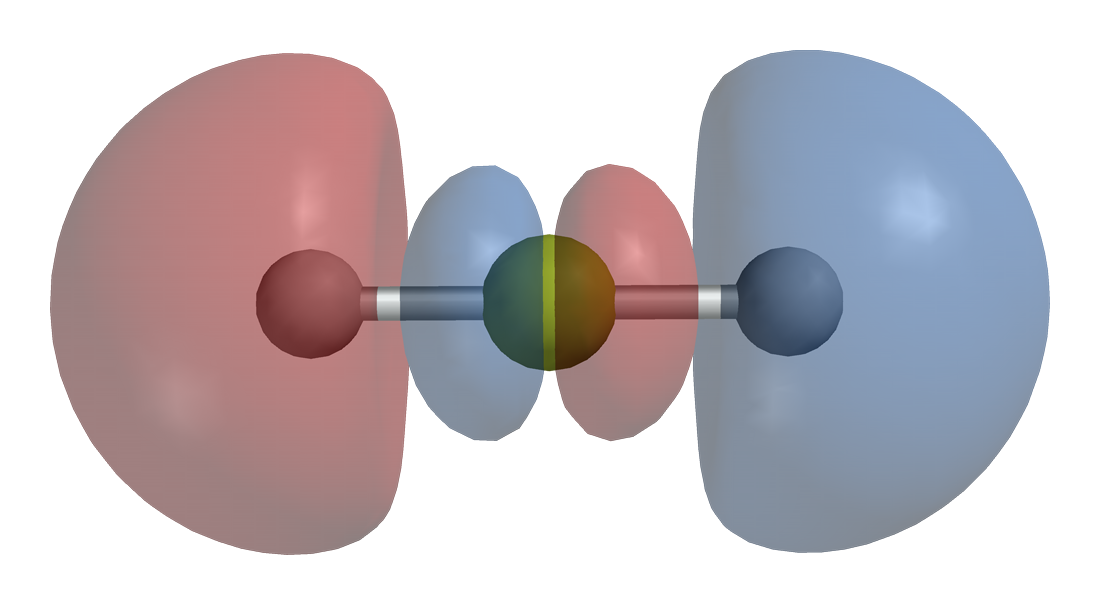 Molecular orbitals of the bifluoride ion, HF2−: LUMO, transparent